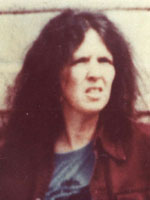 This picture is part of the FBI wanted poster for Elizabeth Ann Duke. It is estimated that this was taken in the mid to late 70's.